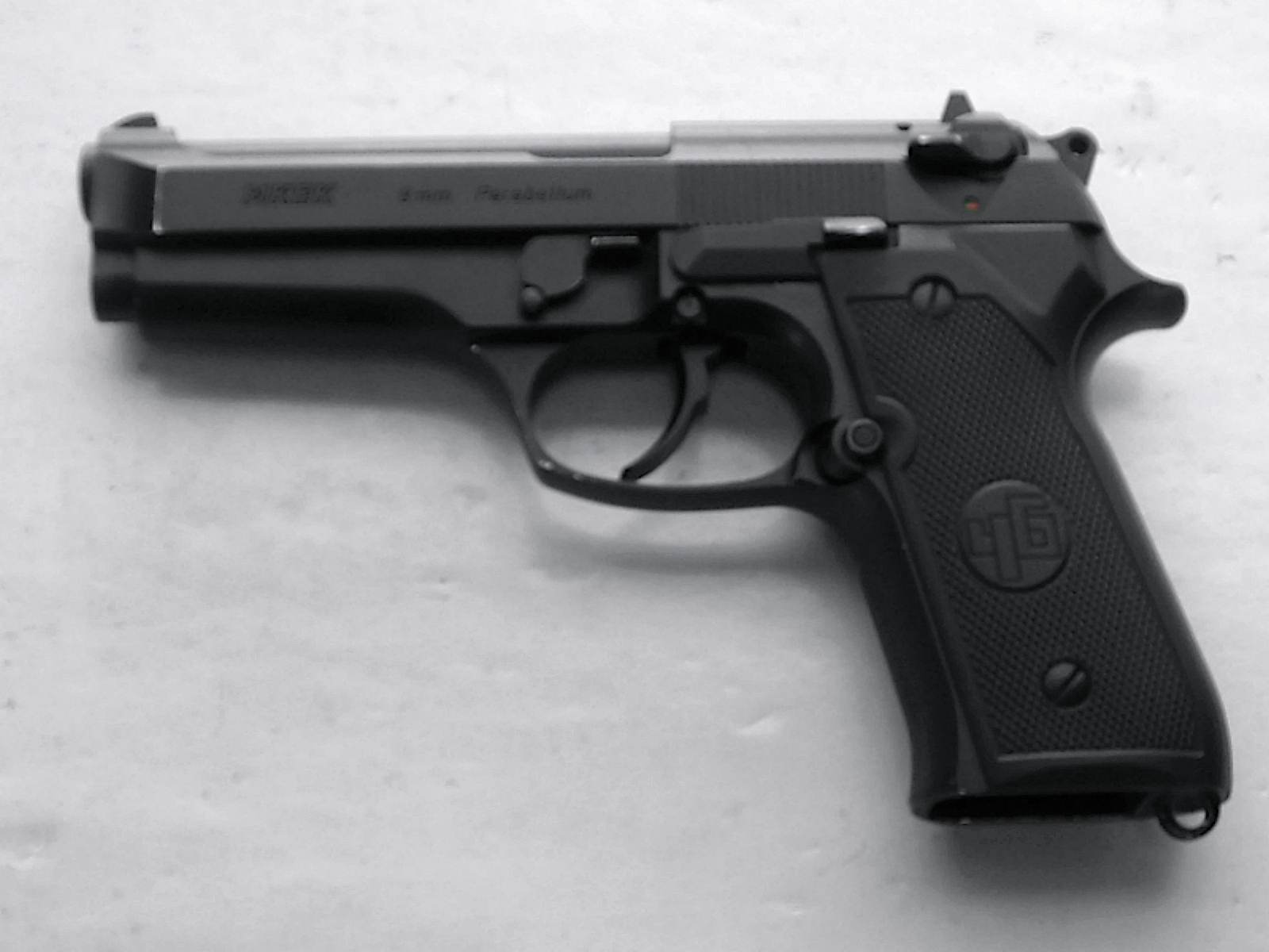 The Turkish-made, MKEK Yavuz 16 Compact semi-automatic handgun. Taken by me at Malaysian Firing Range.